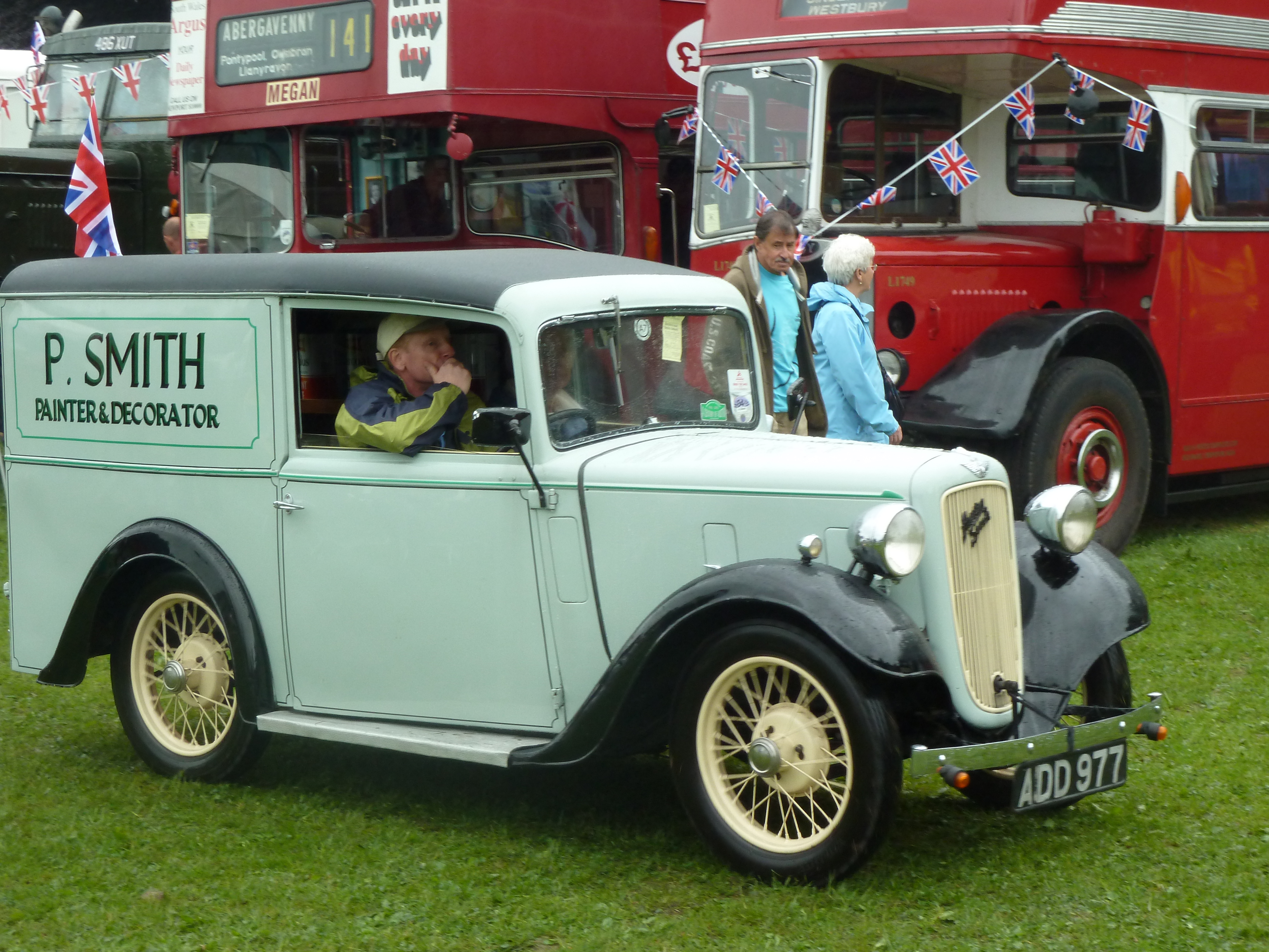 Austin 7 van (DVLA) first reg 1 May 1935, 747cc Abergavenny steam rally, 2012